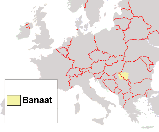 Location of Banat. Created from